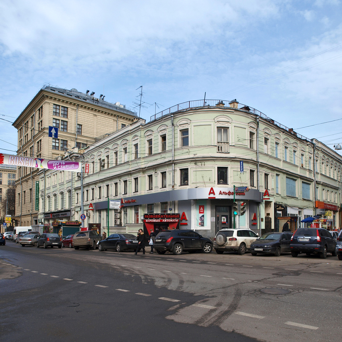 Neglinnaya Street, Moscow.